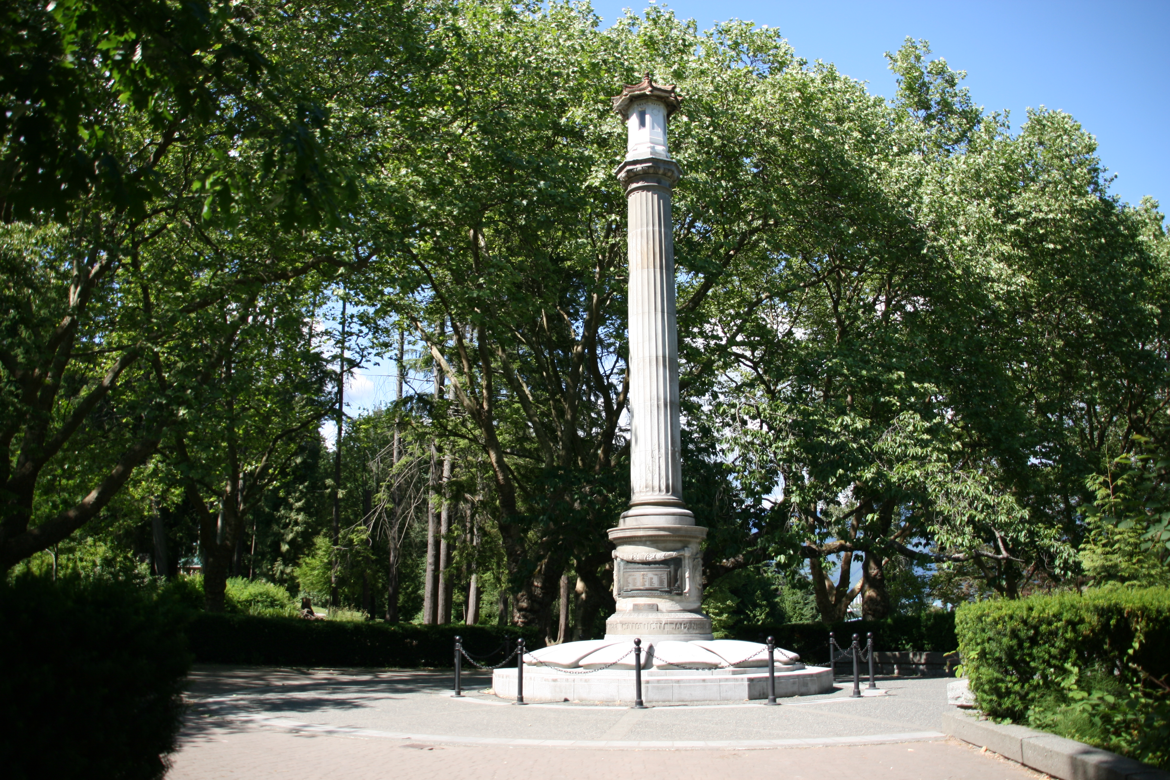 Picture of the Japanese War Memorial (cenotaph) in Stanley Park.